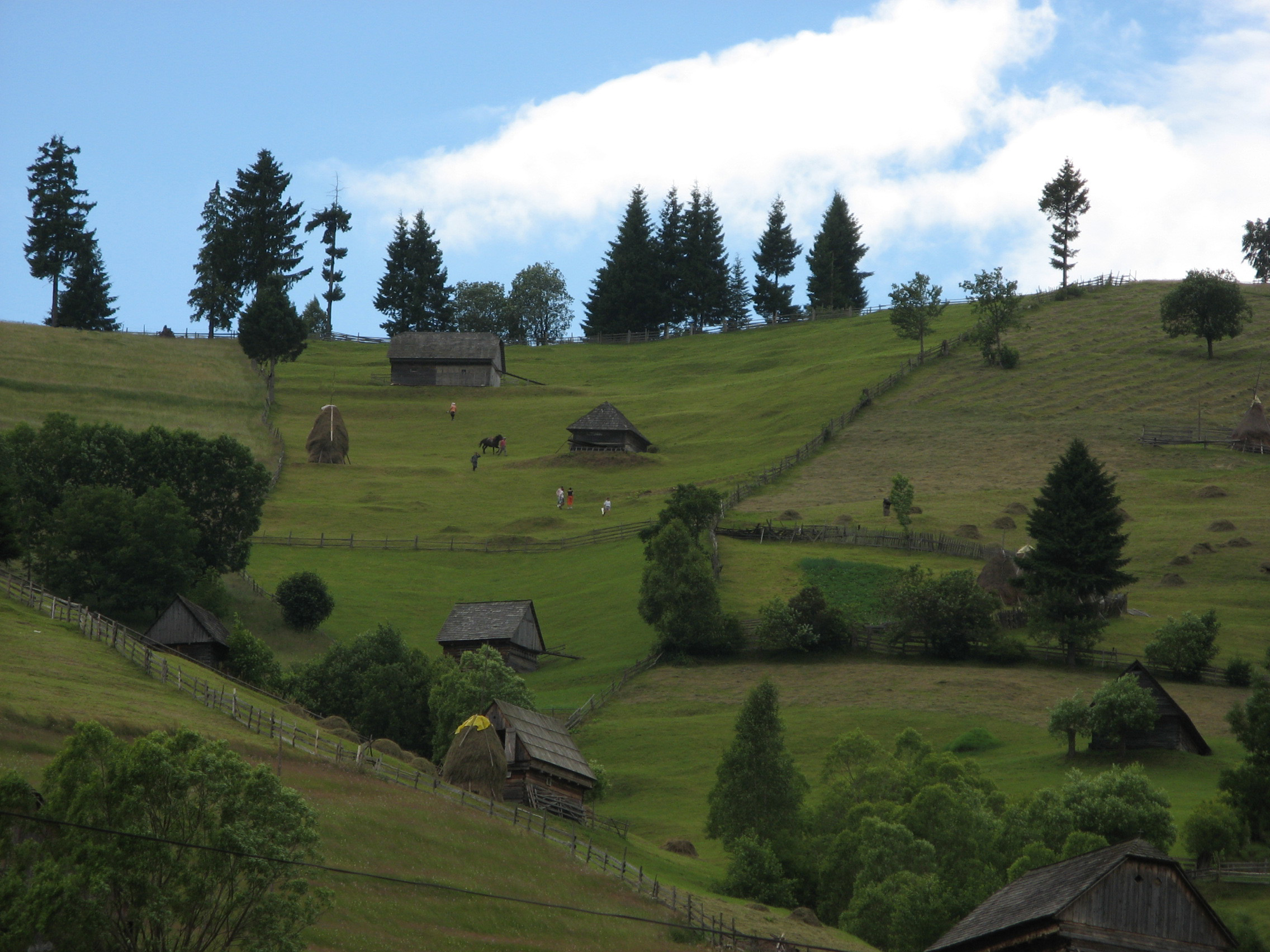 Landscape of the Carpathian Mountains in Romania. This picture was taken at Moeciu near Brasov.